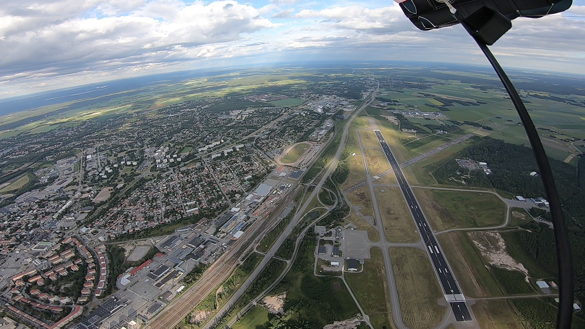 Pori airport.